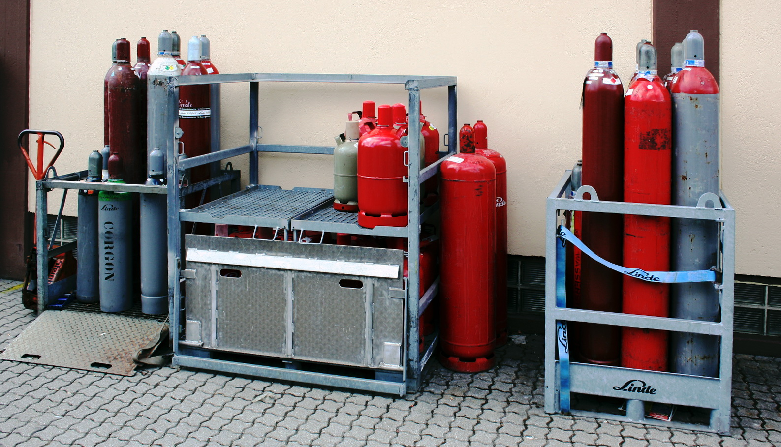 Gas cylinder storage - transport frames from Linde